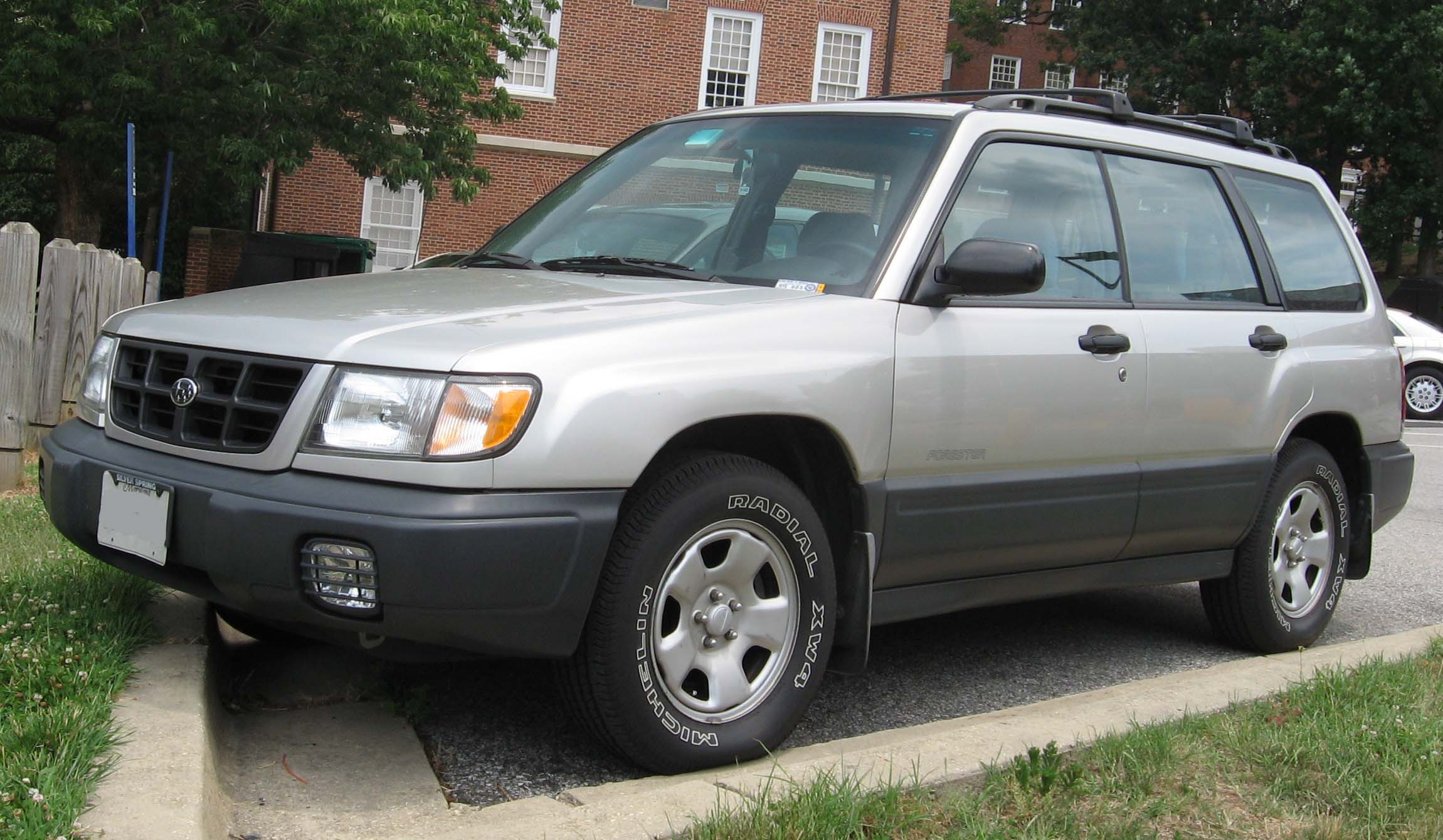 1998-2000 Subaru Forester photographed in USA.